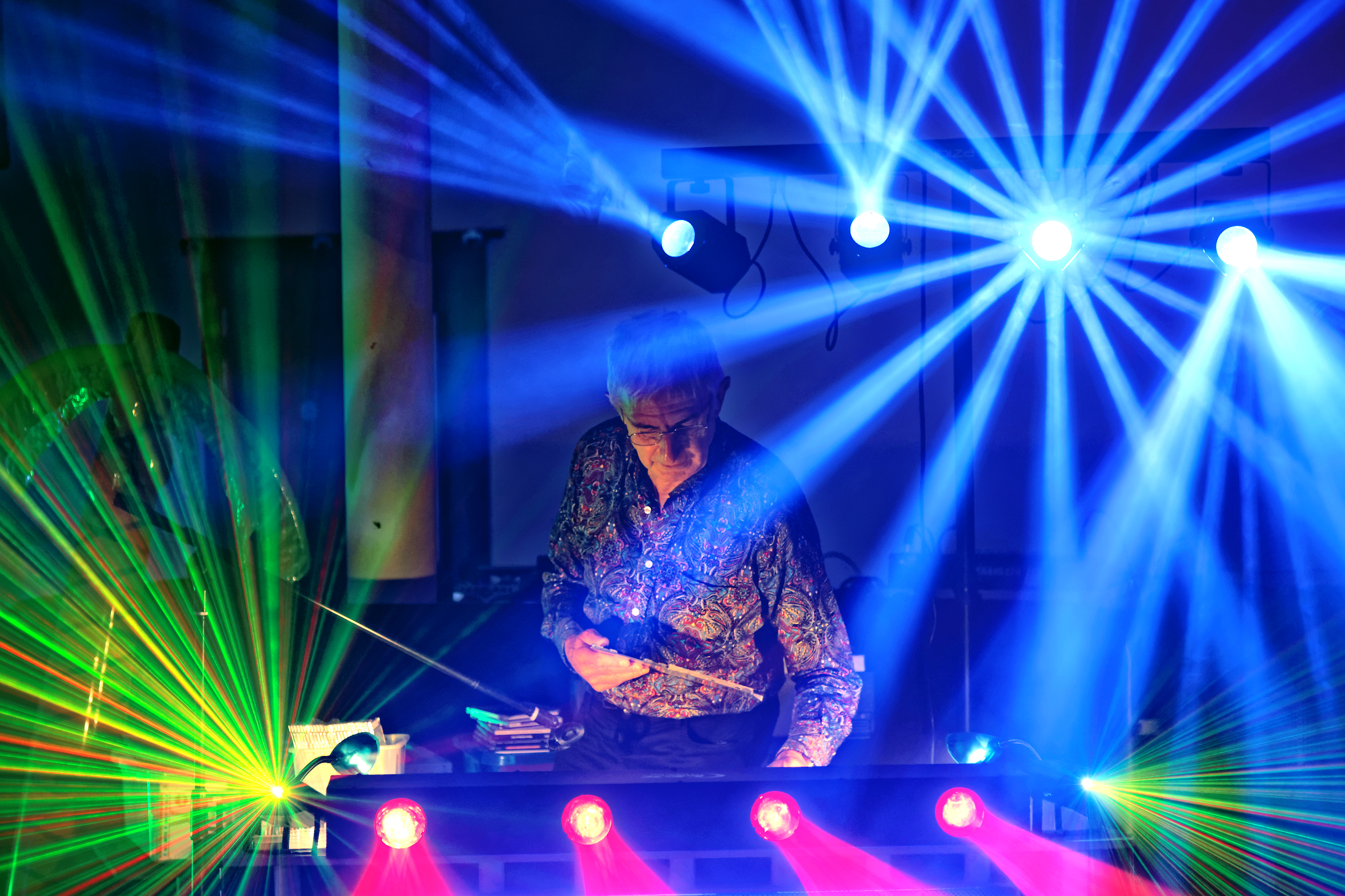 Roger 'Twiggy' Day at a pirate radio celebration event at Dreamland in Margate, Kent, England, in May 2016.Camera: Canon EOS 6D with Canon EF 24-105mm F4L IS USM lens.Software: large RAW file lens-corrected, optimized and downsized with DxO OpticsPro 10 Elite, Viewpoint 2, and Adobe Photoshop CS2.